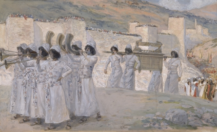 The Seven Trumpets of Jericho, c. 1896-1902, by James Jacques Joseph Tissot (French, 1836-1902) or follower, gouache on board, 7 5/16 x 12 1/16 in. (18.7 x 30.7 cm), at the Jewish Museum, New York